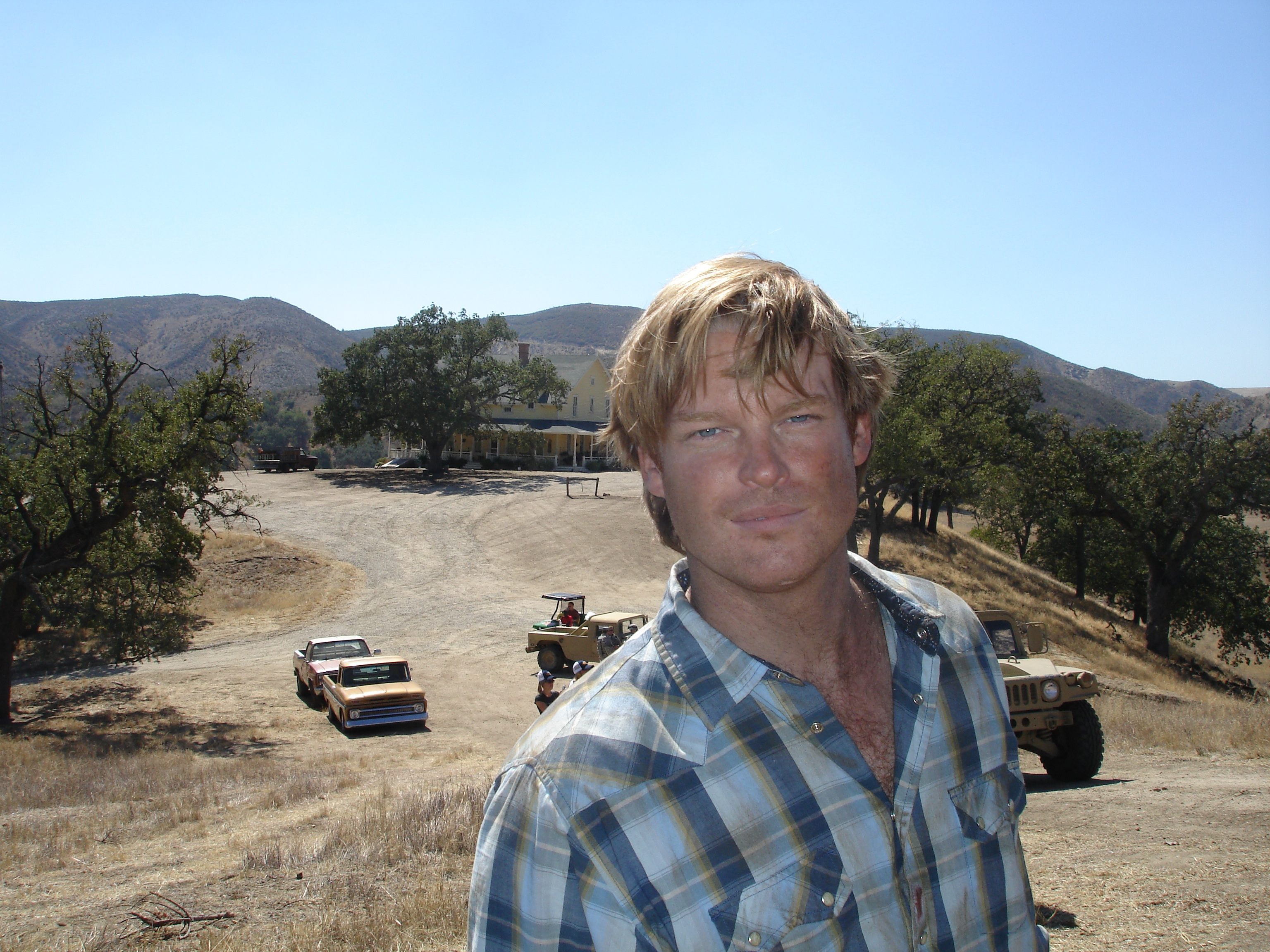 Brad Beyer, American actor, on the set of Jericho